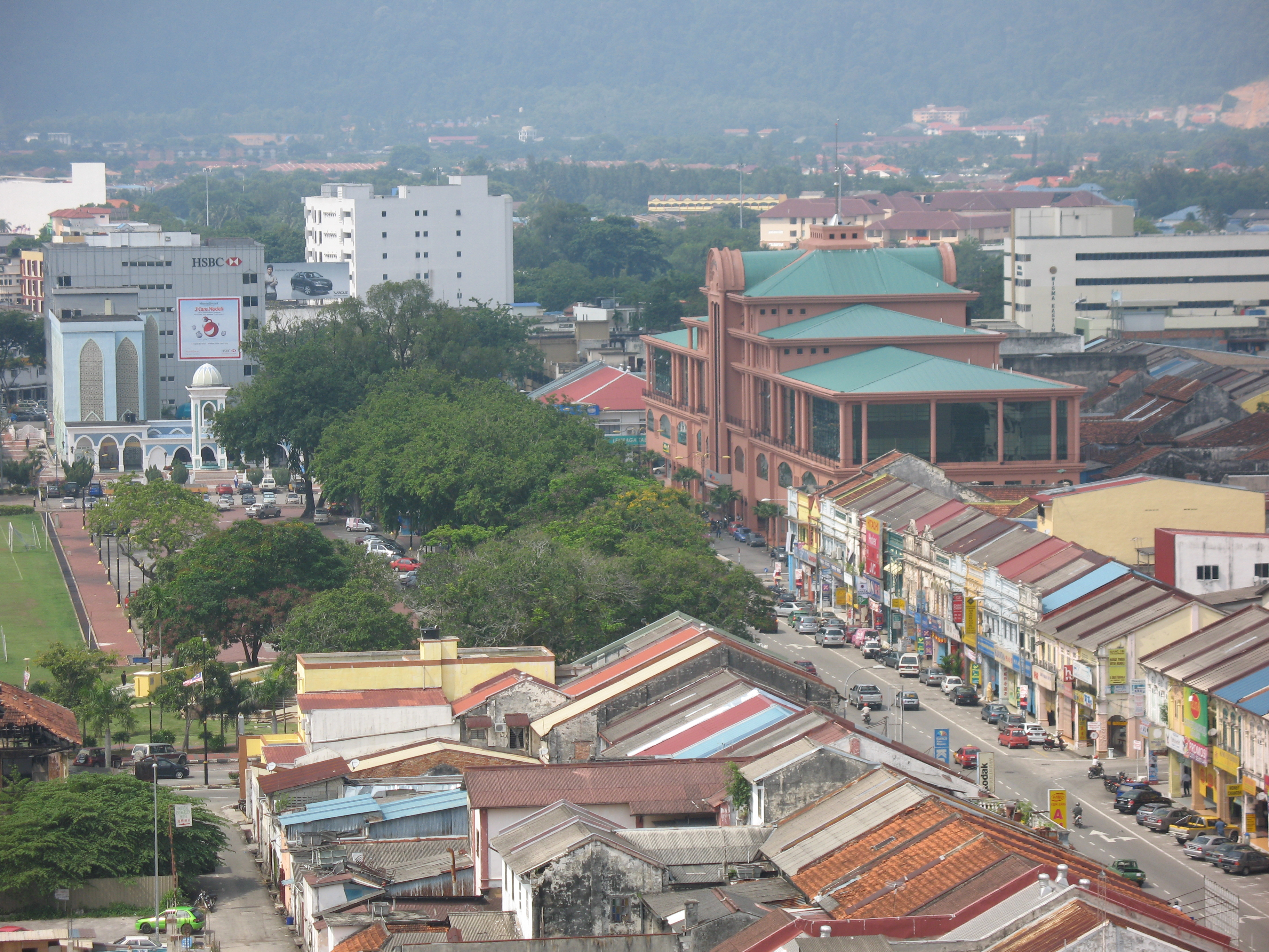 The main street on the right is Jalan Mahkota (previously called Wall Street during British administration).